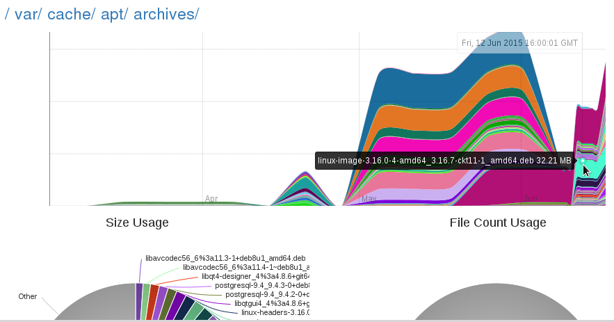 DiskReport example screenshot